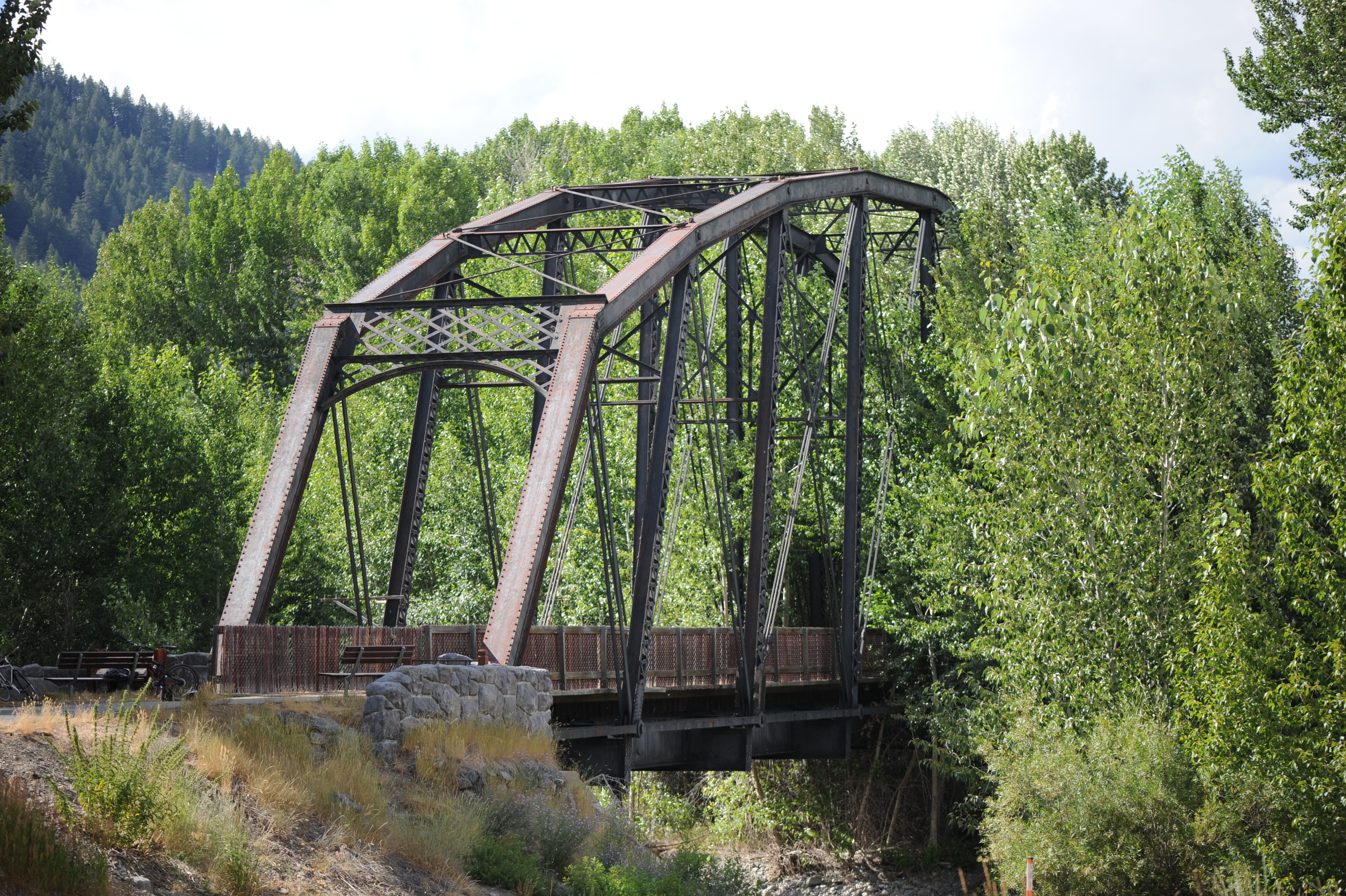 A photograph of the Cold Springs Bridge in Blaine County, Idaho.